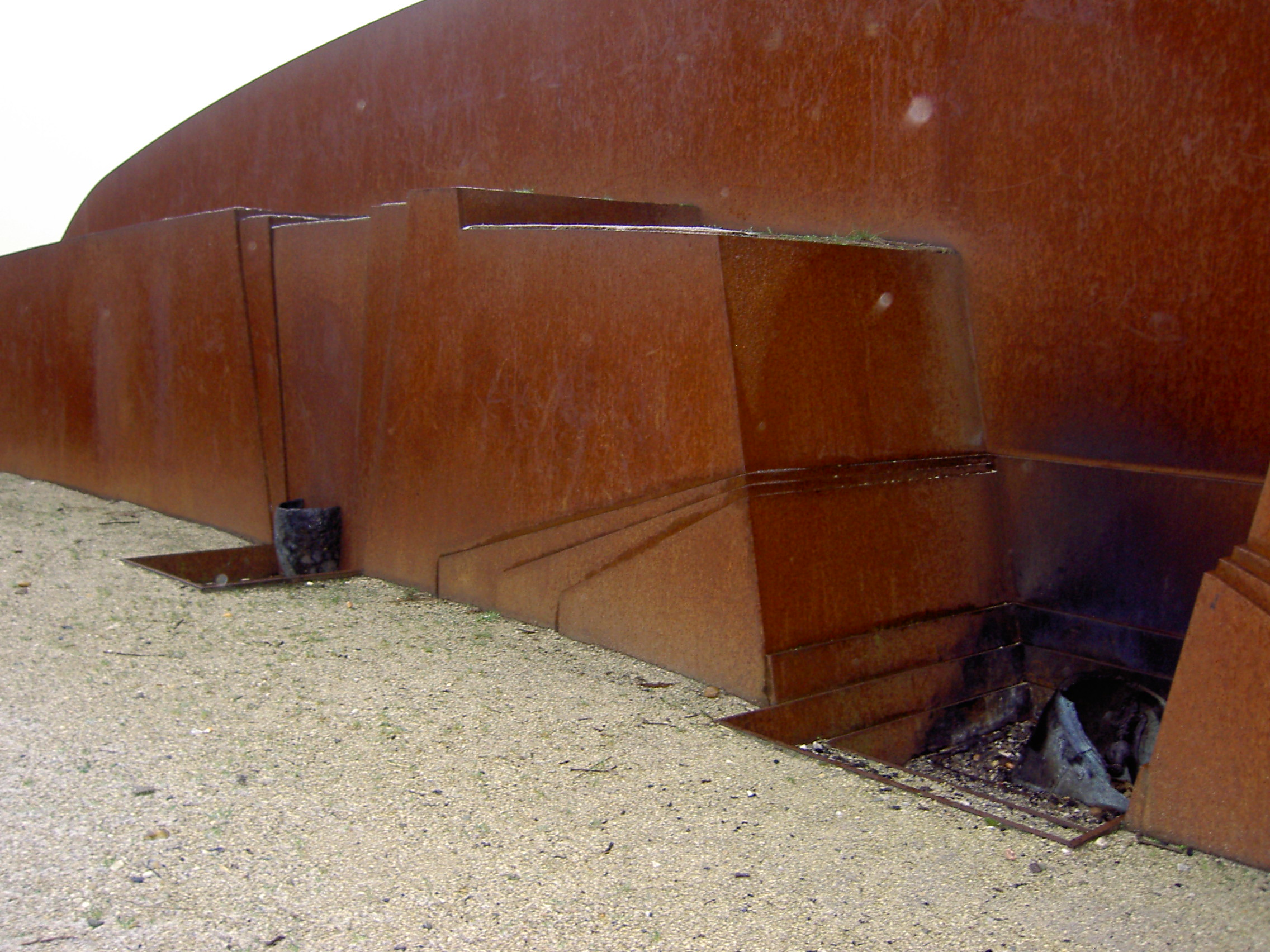 Vorstengraf